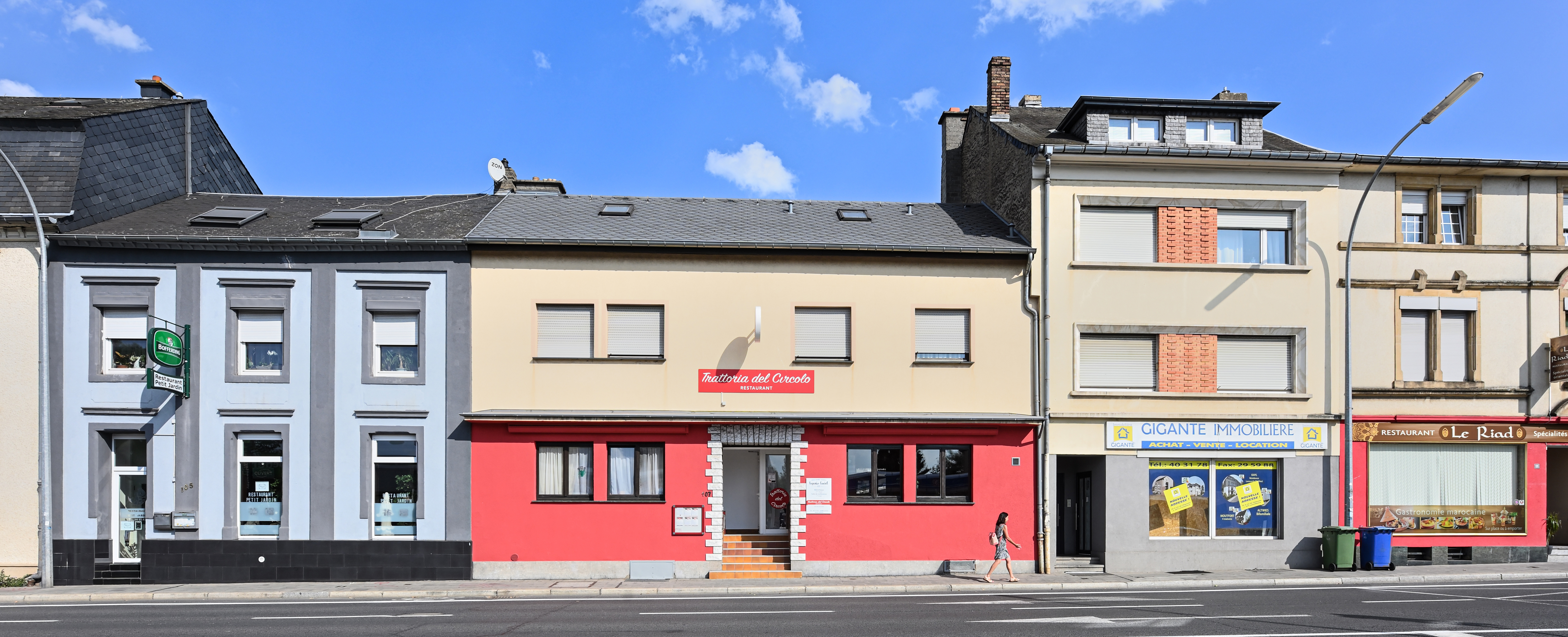 Luxembourg City, quarter of Hollerich, route d'Esch: buildings at 105-111 in frontal view.